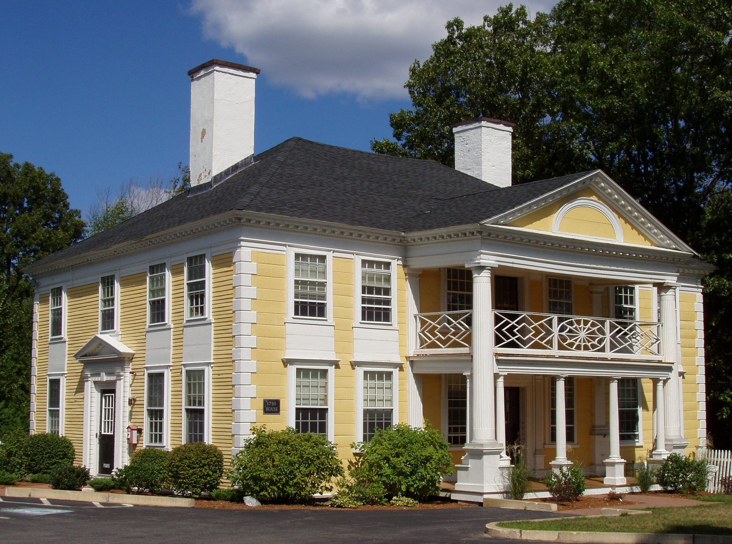 1790 House, Woburn, Massachusetts. Photograph taken by me, September 2005.